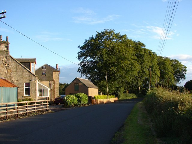 Bushelhead Road (near Braidwood) Bushelhead Road as it leaves the A73 and heads towards the main railway line.